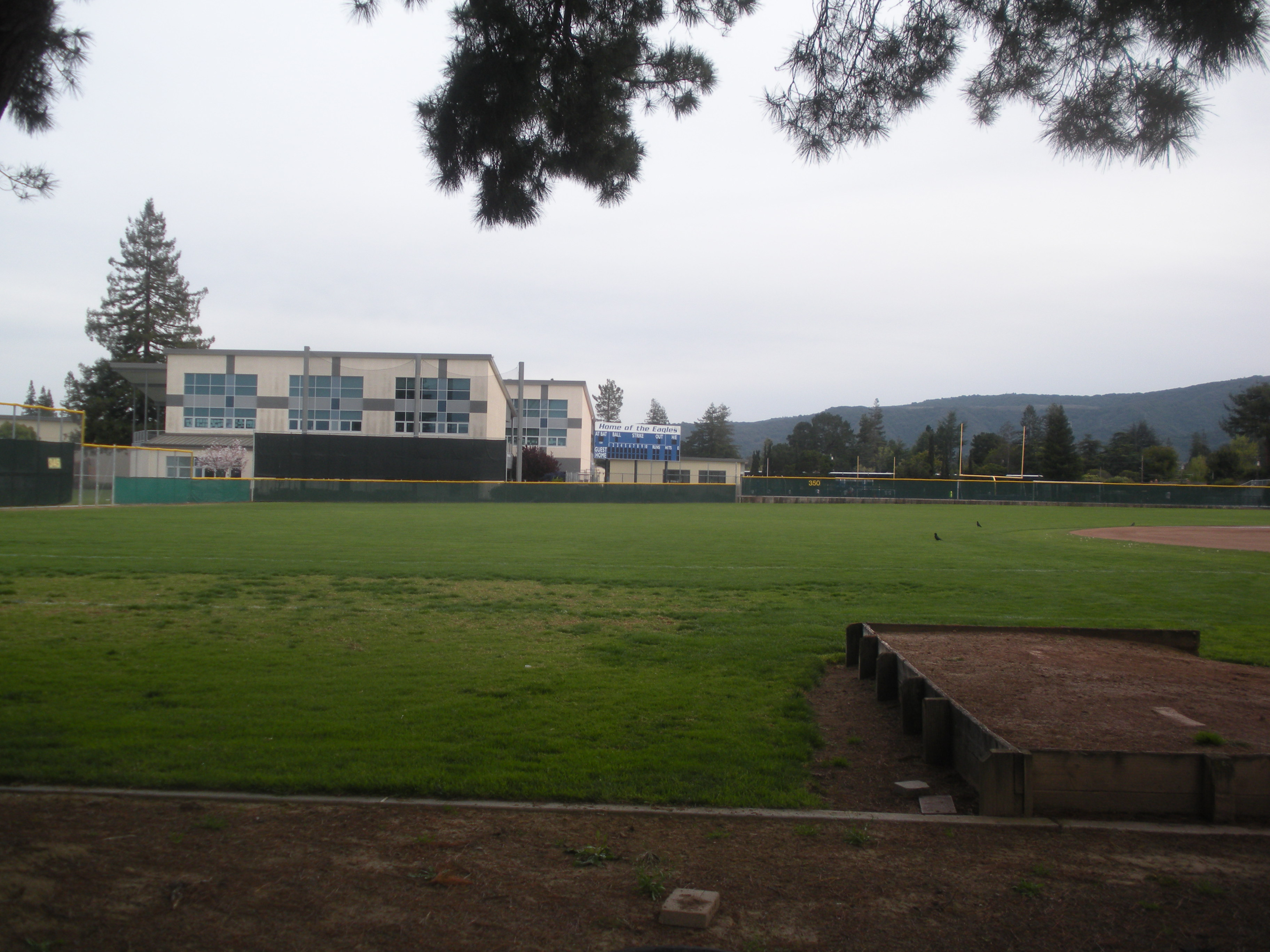 This is Los Altos High School as viewed from the south. Originally posted to my Flickr